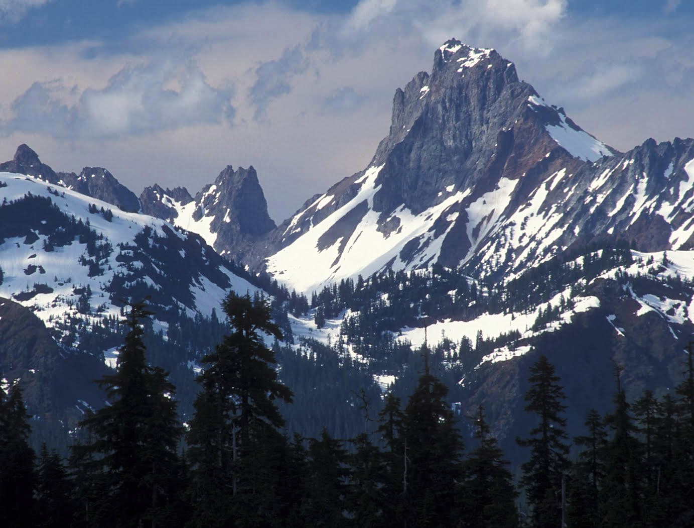 American Border Peak in North Cascades Mountains, Mt Baker Snoqualmie National Forest